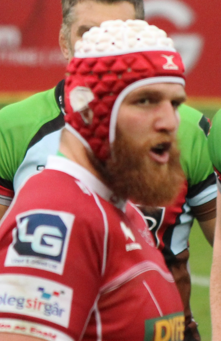 Lineout Heineken Cup 2013-14, 12 October 2013, Twickenham Stoop. Match between: Harlequins - Scarlets